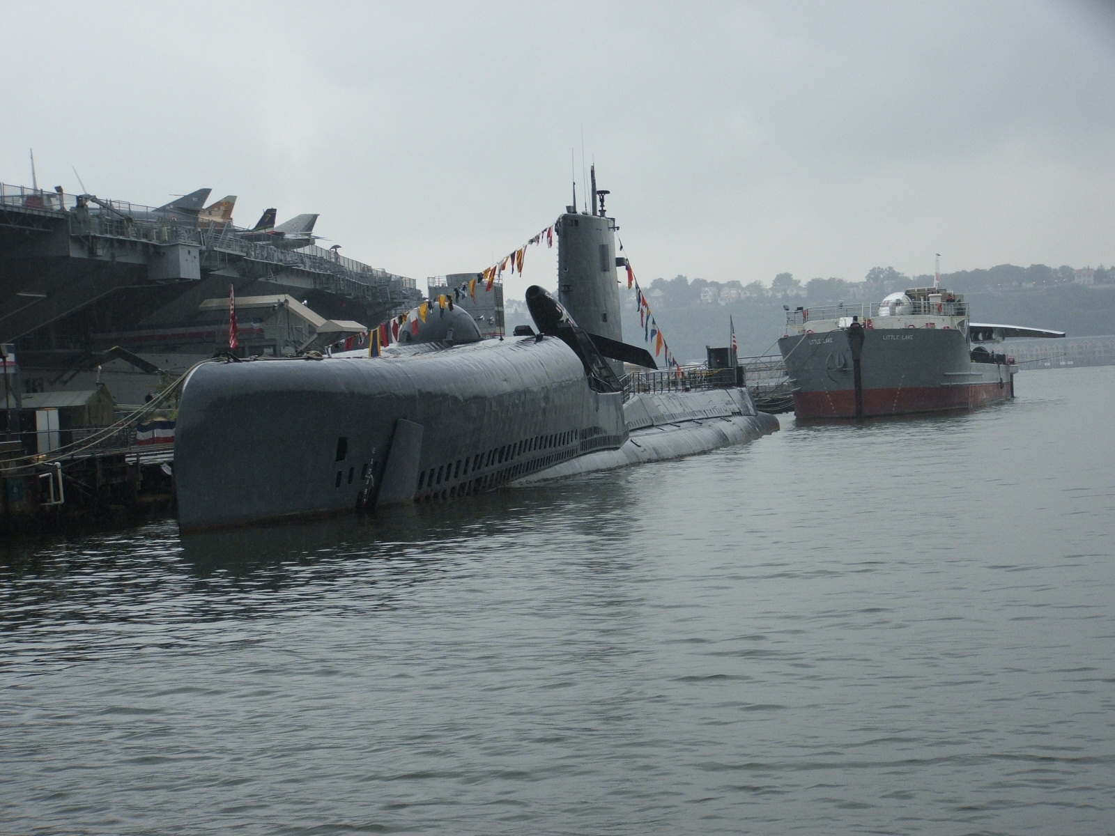 Guided missile submarine USS Growler on display at the Intrepid Museum